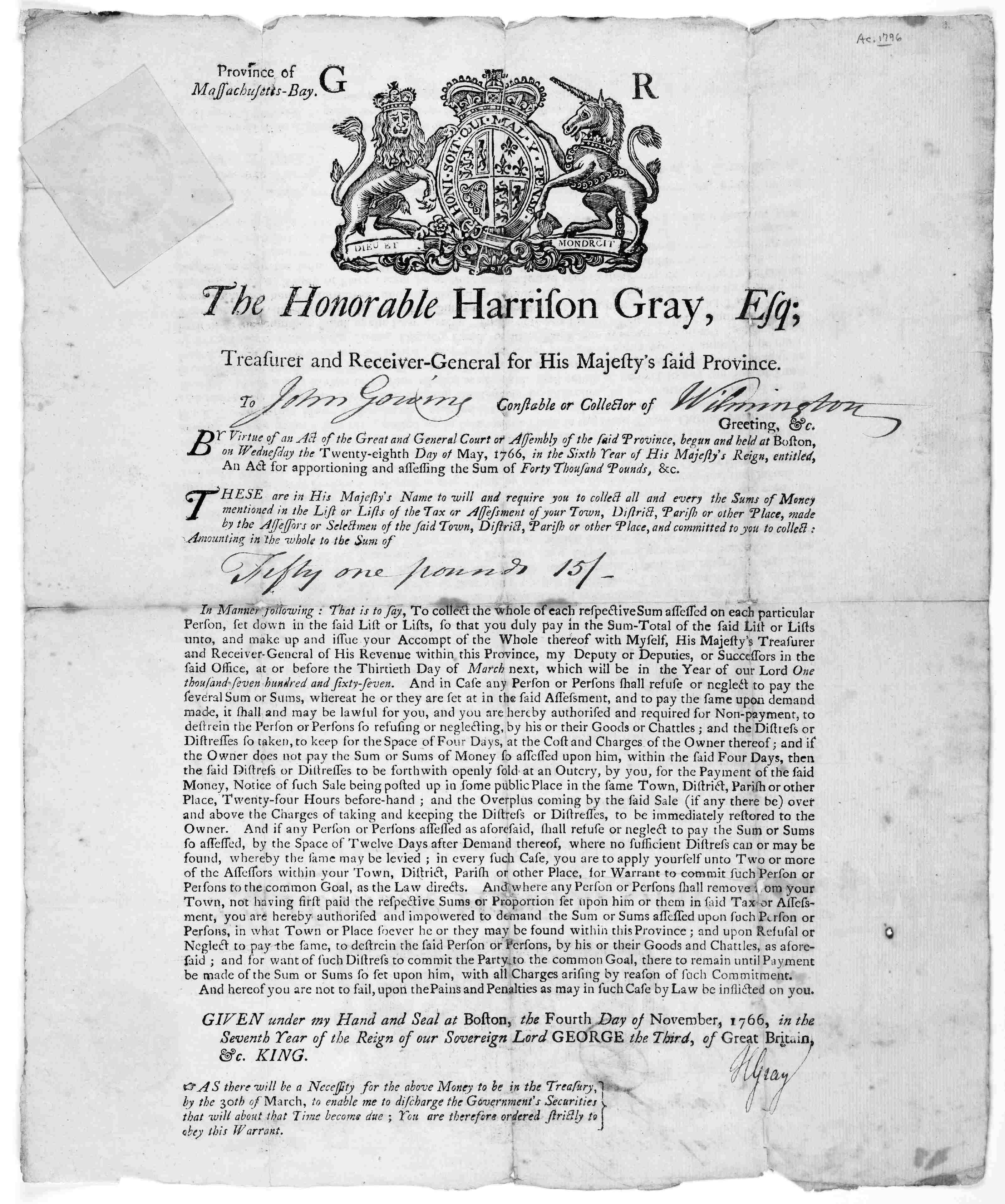 Collection list of revenues by Harrison Gray, Esq., Treasurer and Receiver-General for His Majesty's Colony of Massachusetts. Document courtesy of the Library of Congress, Washington, D. C.